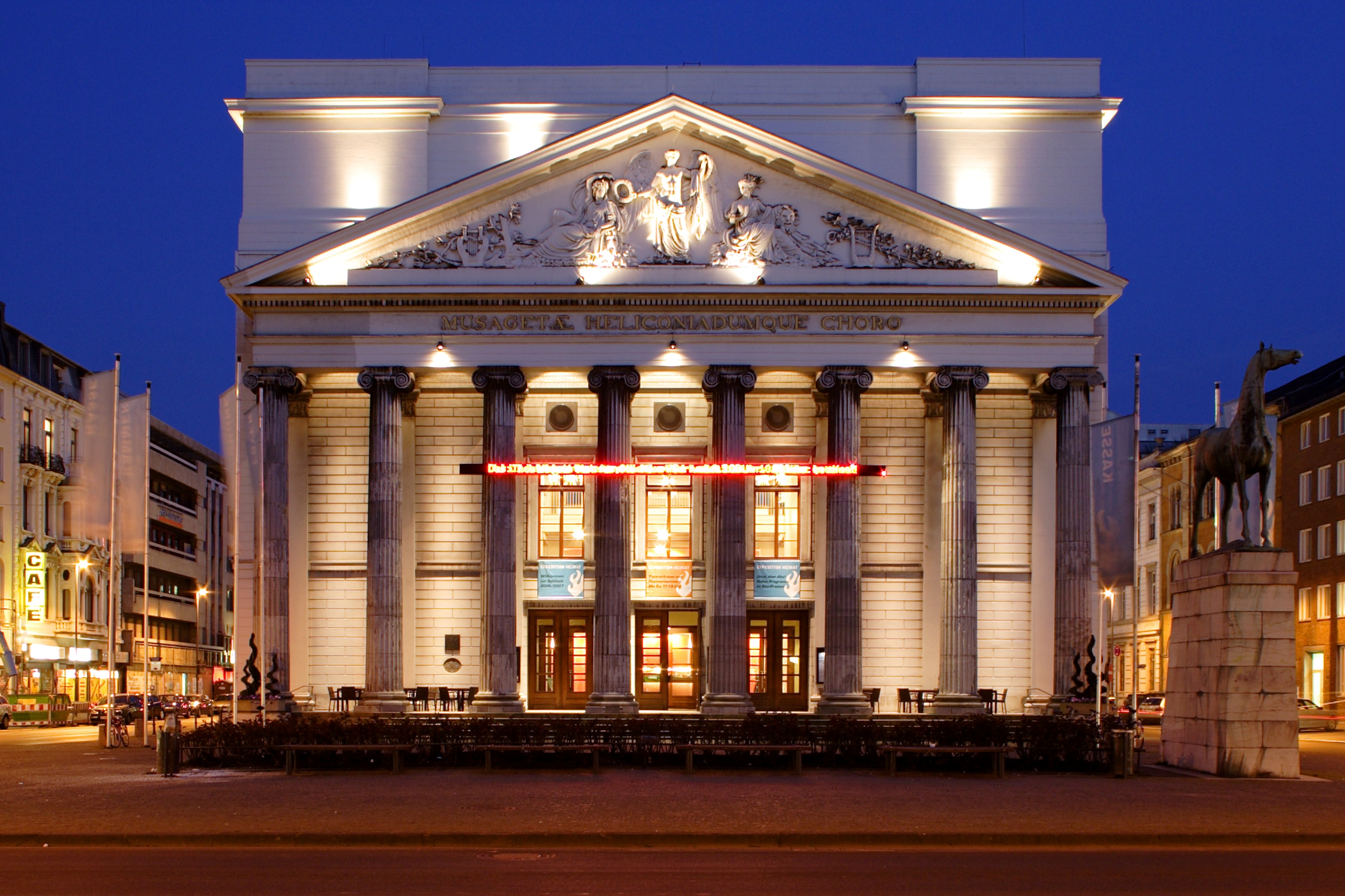 Aachen Theatre The photo shows the theatre in Aachen, Germany. Camera data Camera: Canon EOS 350D Lens: EF-S 18–55 mm 1:3.5–5.6 Exposure time: 6 s Sensivity: ISO 100